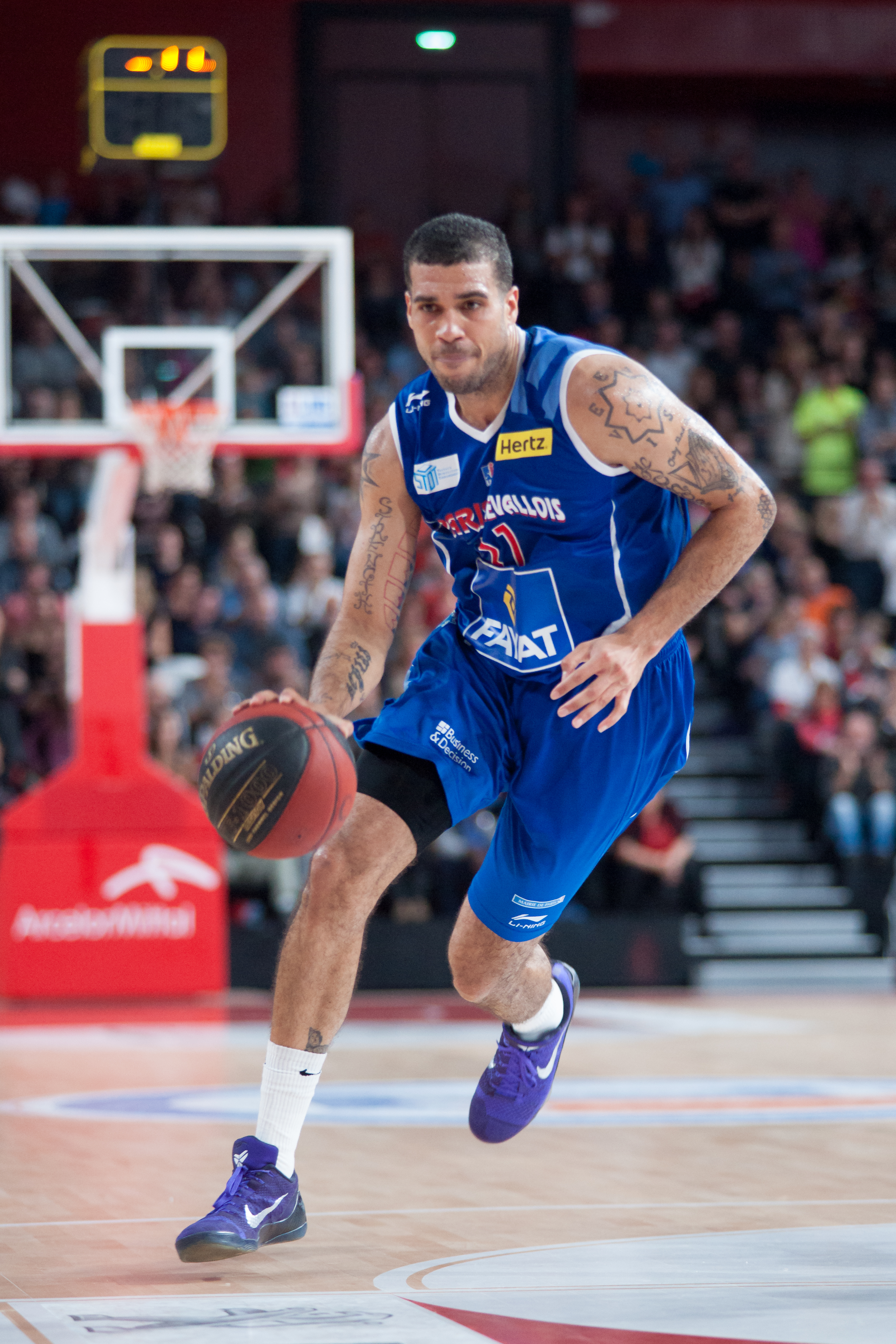 Bourg-en-Bresse vs. Paris-Levallois, 15th November 2014